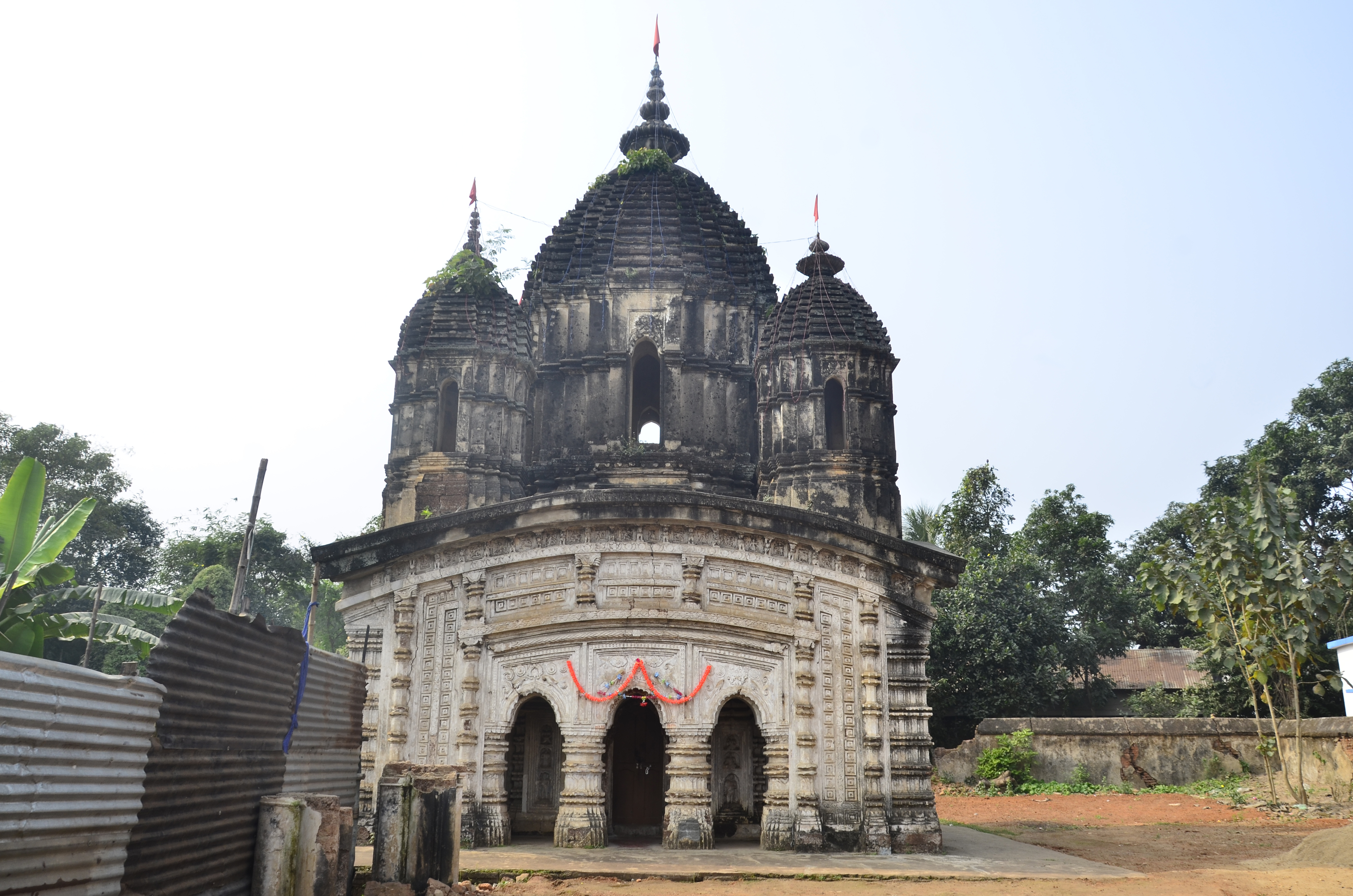 1831 built Pancha Ratna Laterite Malleshwar Shiva Temple in Bishnupur style with several stucco figures. The temple was built by Maharaj Tejchandra of Burdwan. It was originally inside a premises which had a two storied gateway. The gateway to the premises is ruined at present. There was a Nat Mandir in front of the temple which has been demolished and completely beaten down to dust.